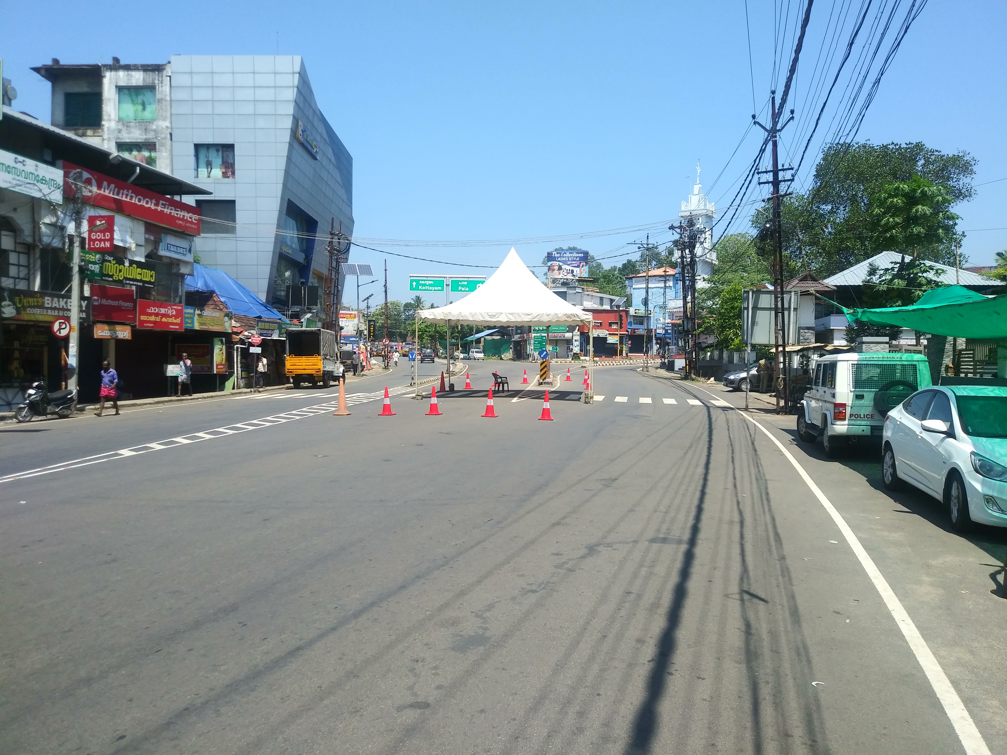 Empty street during COVID-19 pandemic lockdown, photographed from K.K. Road (NH 183) at Ponkunnam. A temporary police check post is also visible.